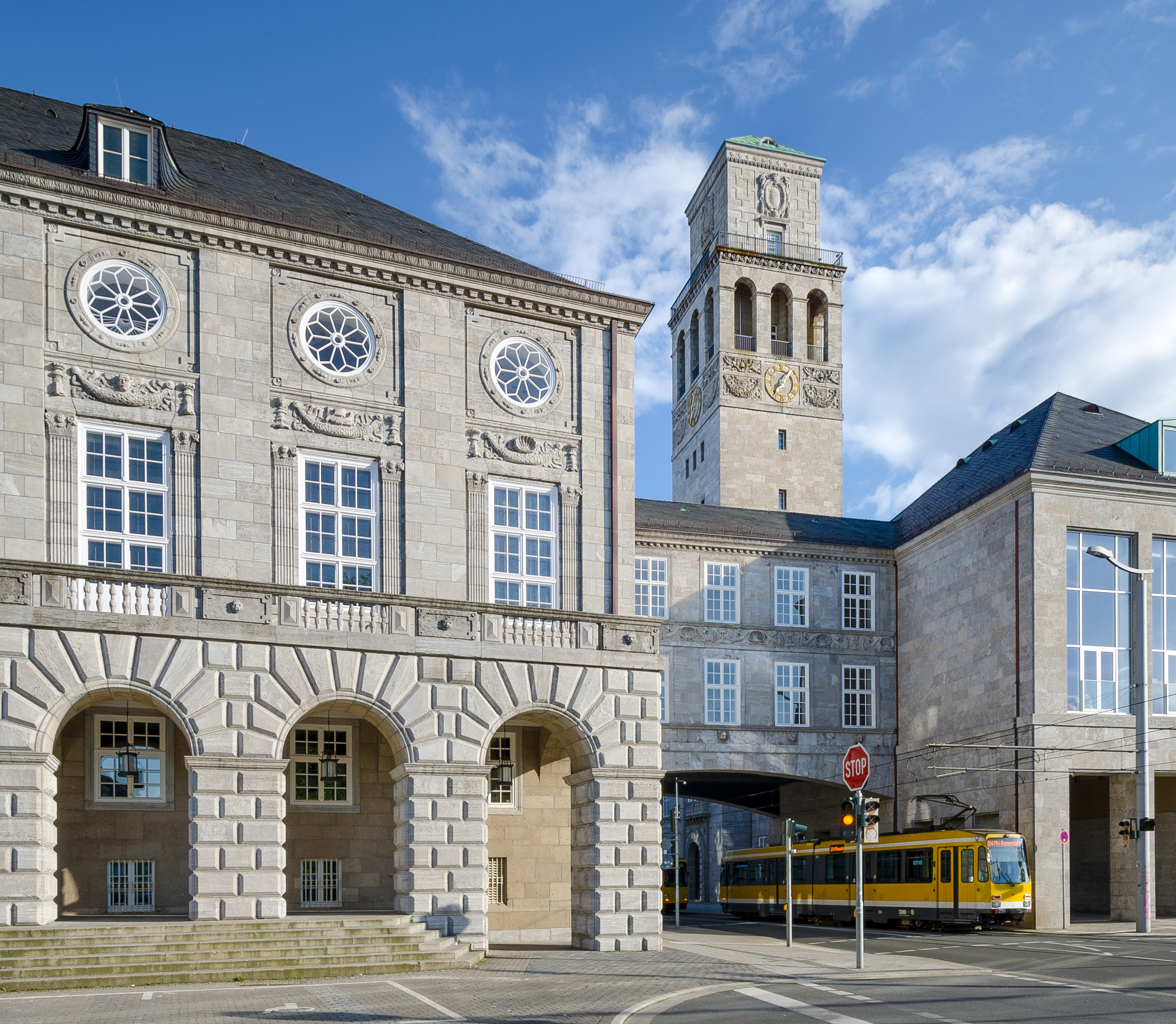 Townhall of Mülheim an der Ruhr, north side, photographed from the market square